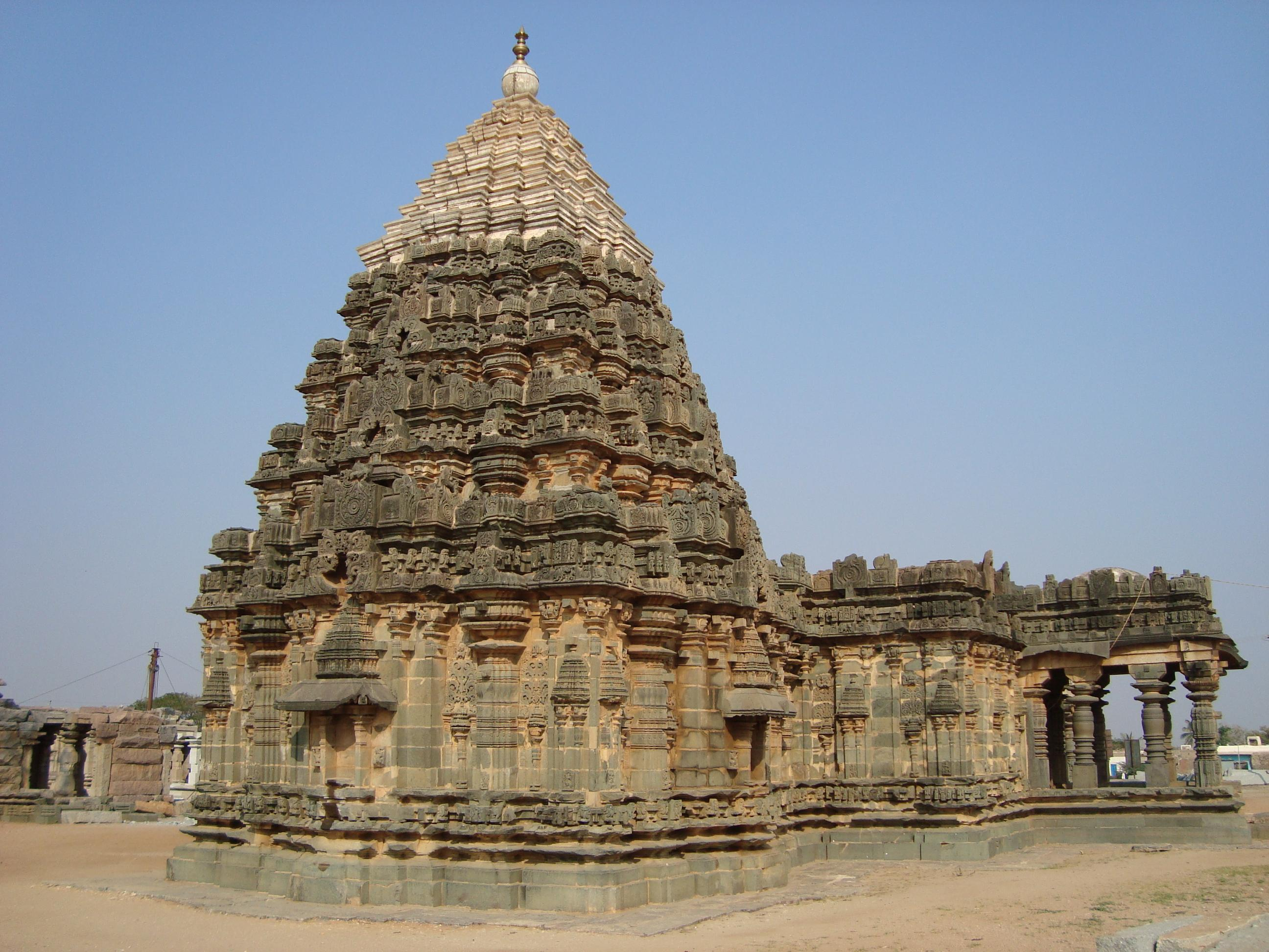 Mahadeva temple Itagi Manjunath Doddamani, Gajendragad / Hubli, Karnataka (North), India